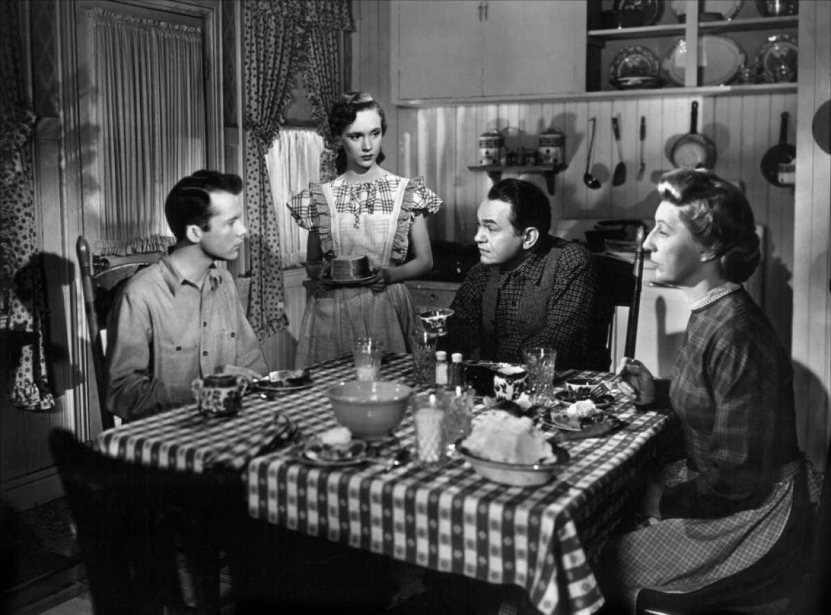 lEFT TO RIGHT: Lon McCallister, Allene Roberts, Edward G. Robinson, AND Judith Anderson in The Red House (1947) - cropped screenshot